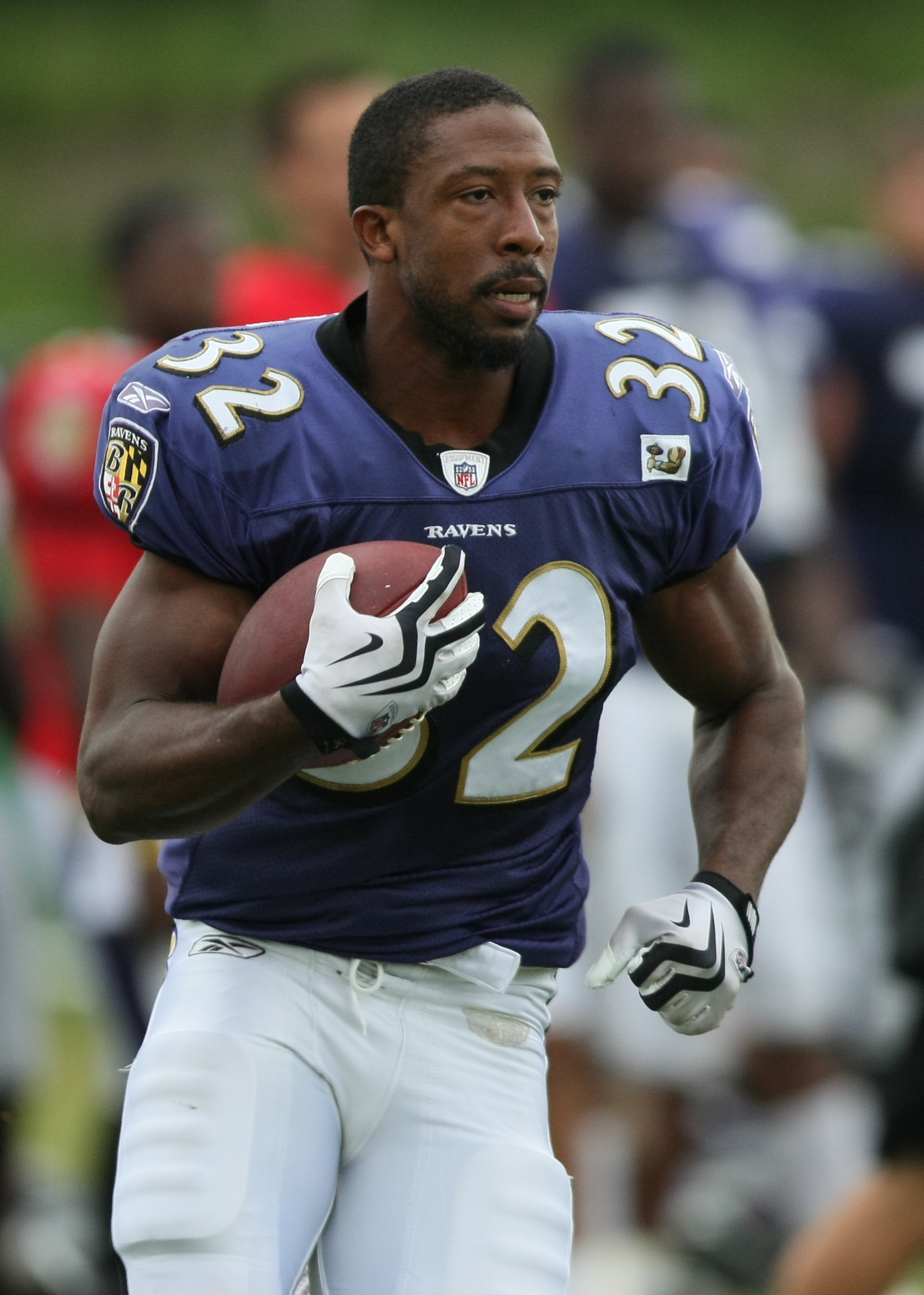 Baltimore Ravens Training Camp August 6, 2009